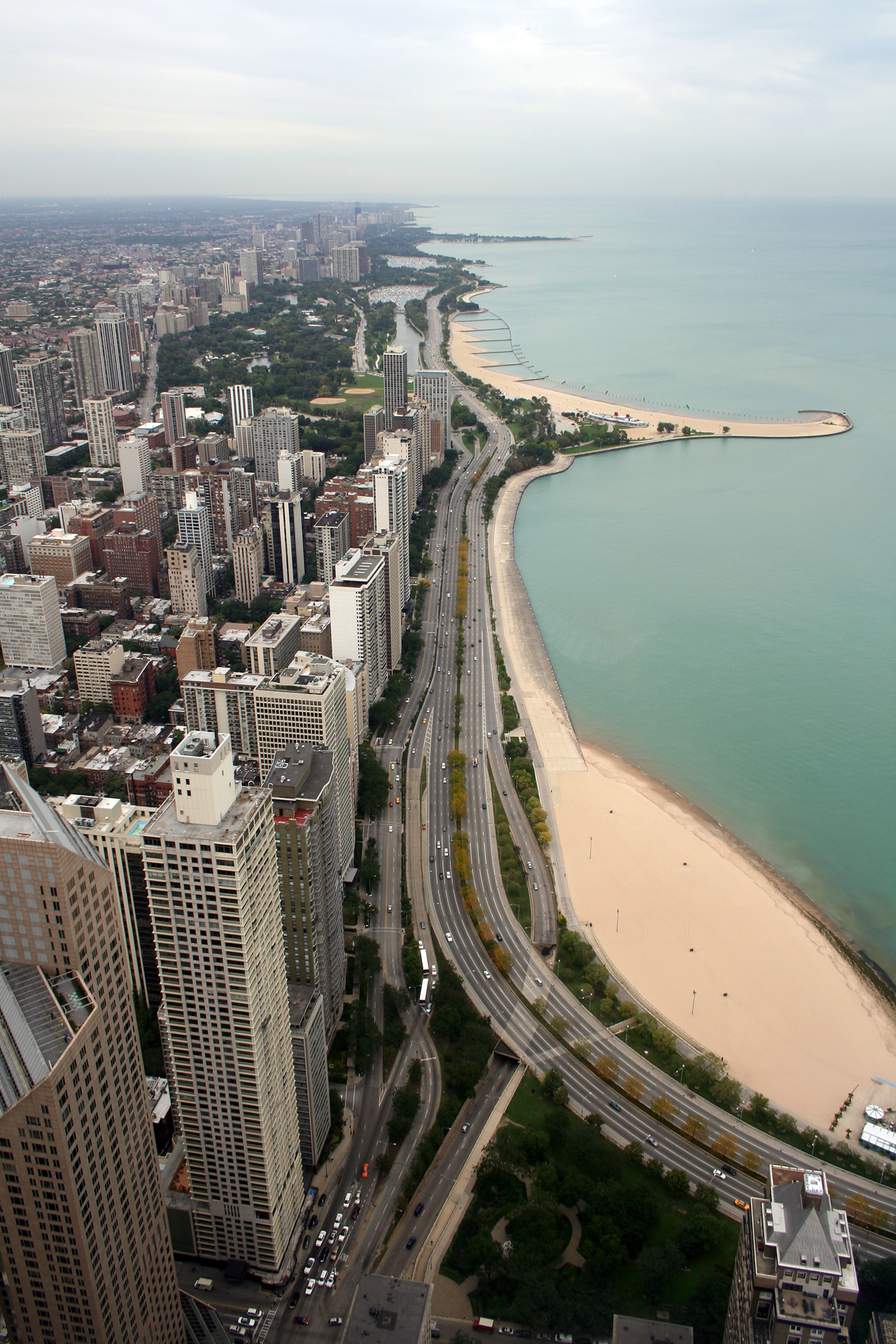 Photograph looking North from the 94th floor of the John Hancock Tower in Chicago, IL. Photo taken by me.